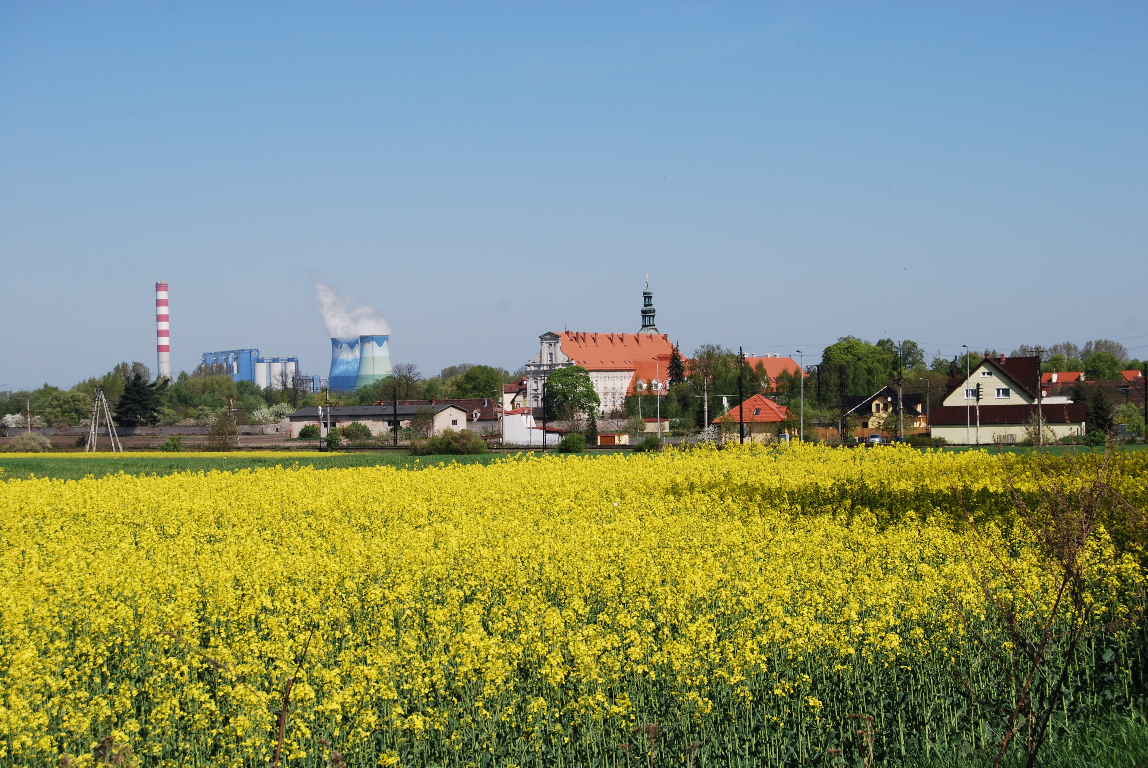 Czarnowąsy